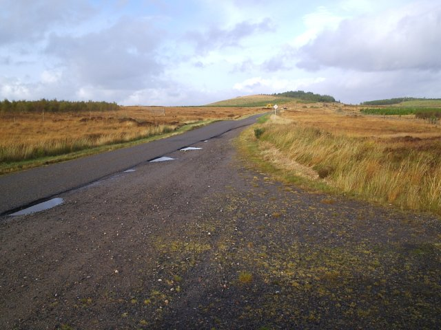 The A836 Road to Altnaharra. Look north.